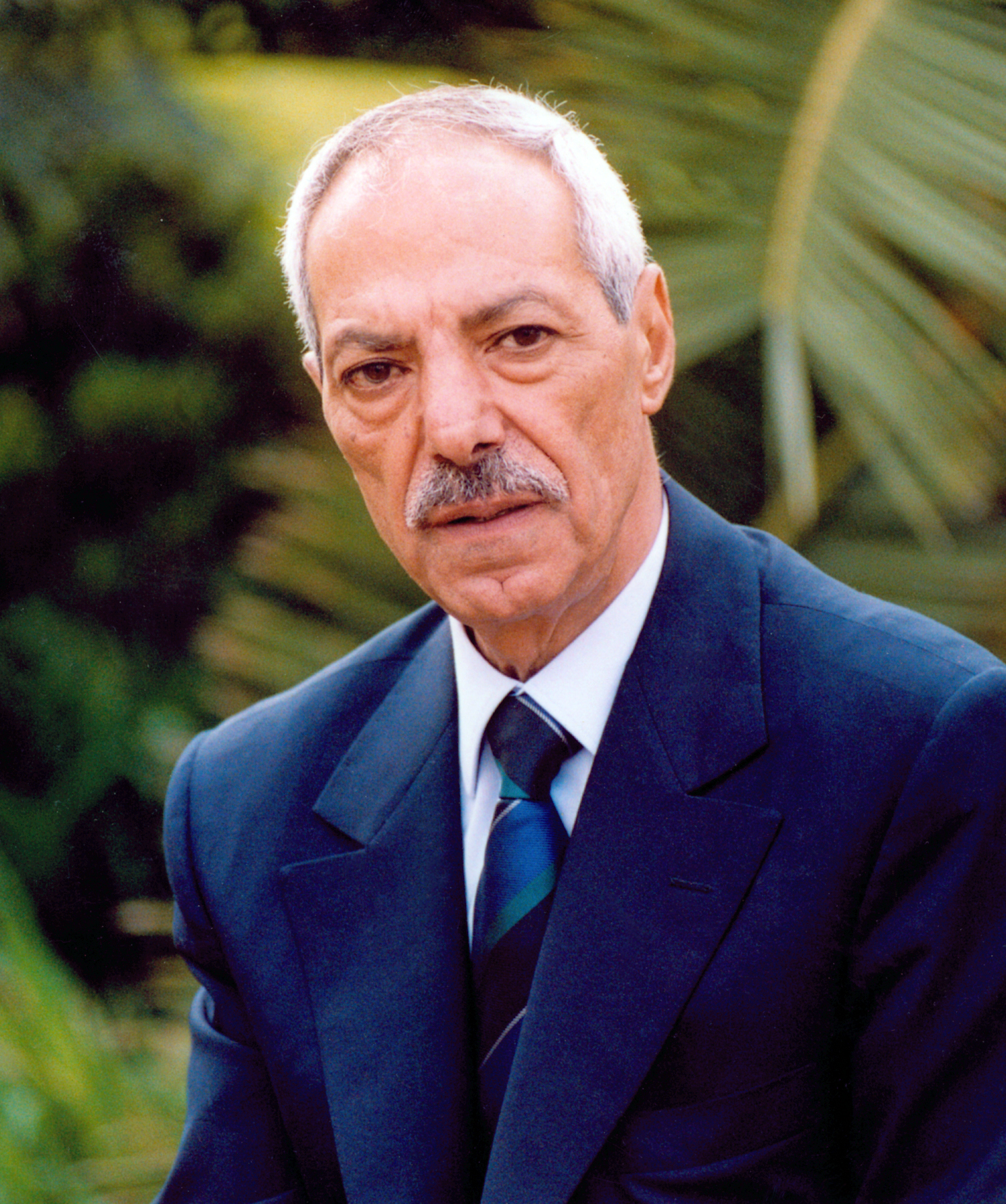 طلال سلمان